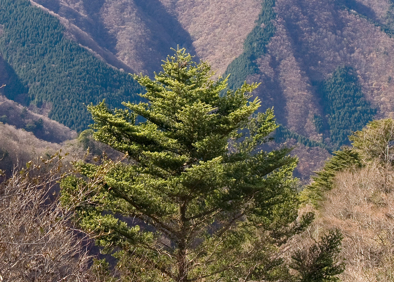 Nikko Fir Abies homolepis in Tamzawa Mountains, Kanagawa Pref., Japan.